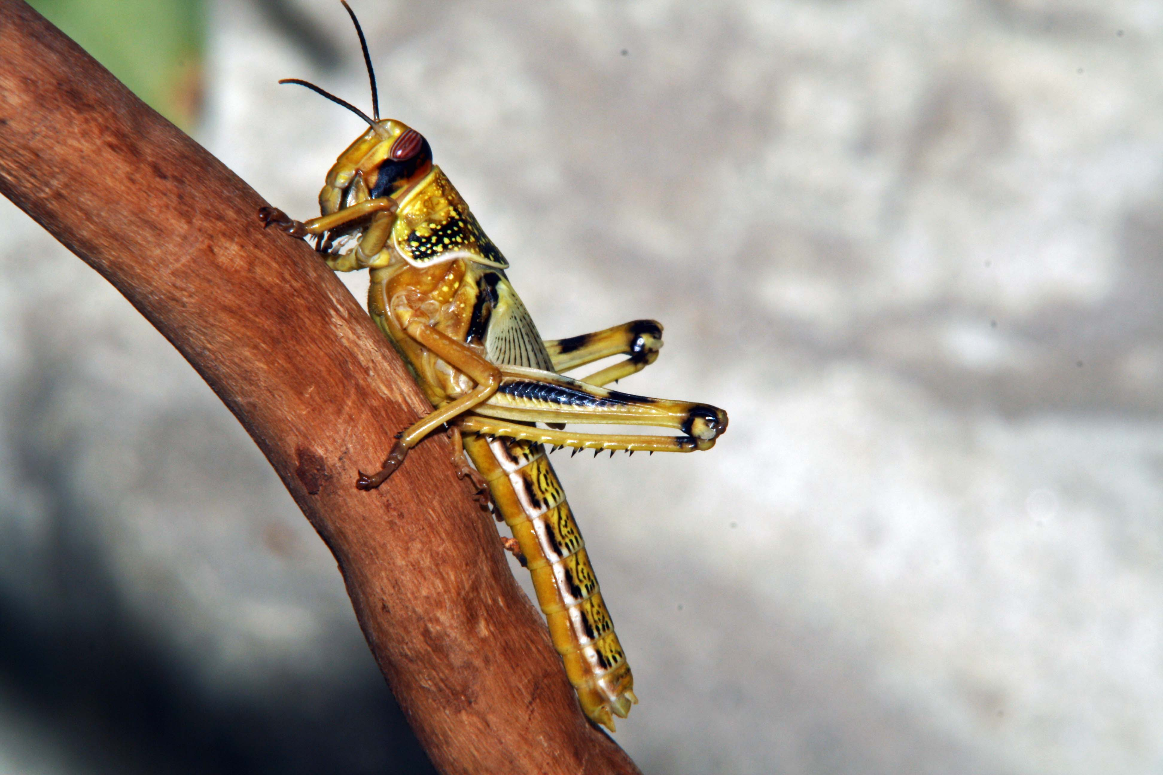 Schistocerca gregaria, Desert locust